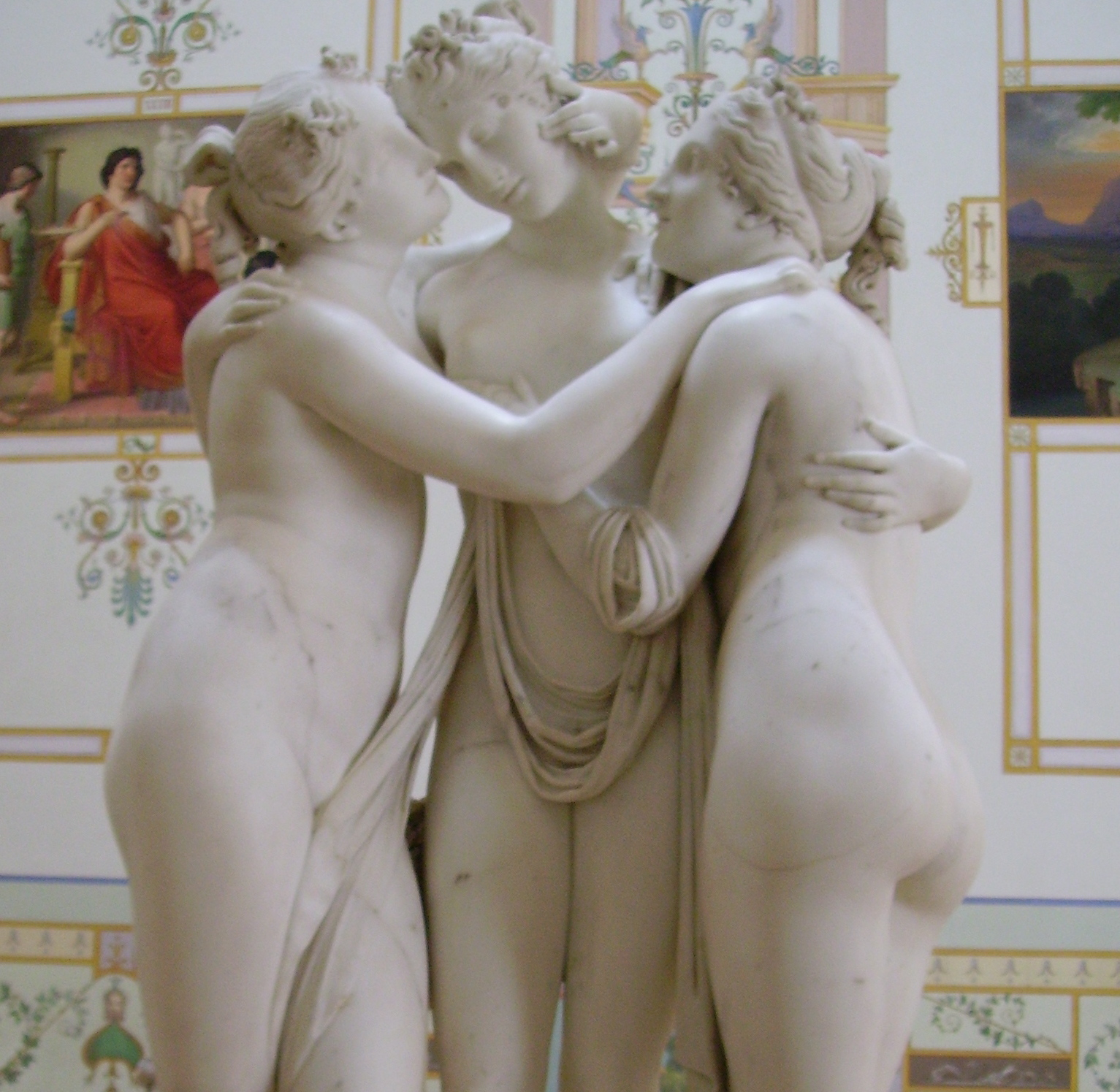 From the youngest to oldest the Graces were: Aglaea ("Beauty"), Euphrosyne ("Good Cheer"), and Thalia ("Festivities"). Also known as the Charites (Greek Mythology name) or Gratiae by the Romans. They appear in many works of art, such as Boticelli's Primavera at the Uffizi gallery.